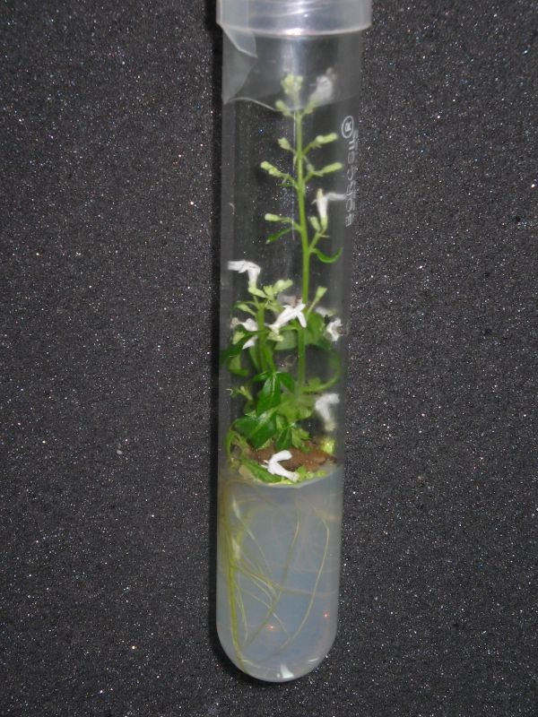 I was working on tissue culture of Vitex negundo. It was a big surprise when it started to bloom inside the test tube.